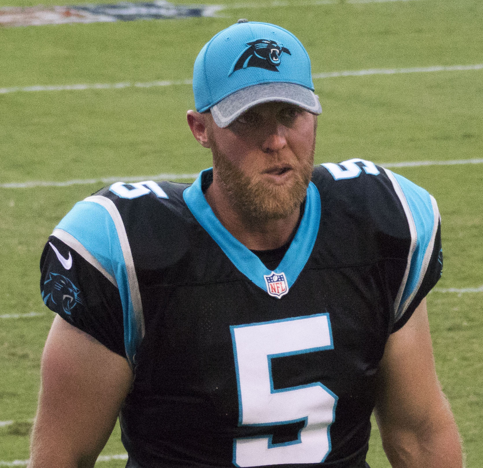 Carolina Panthers punter, Mike Scifres, in the preseason game against the Baltimore Ravens on August 11, 2016